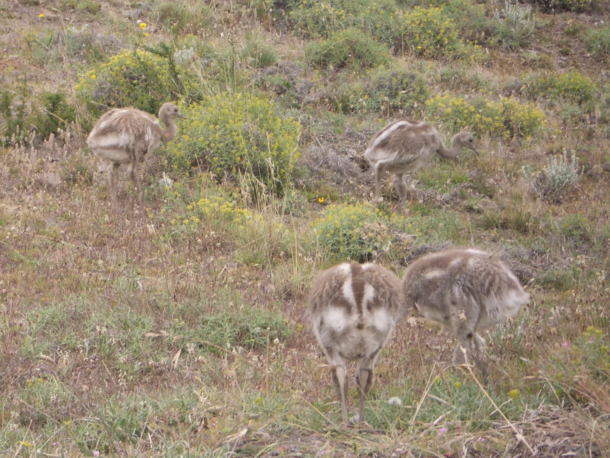 Rhea sp.